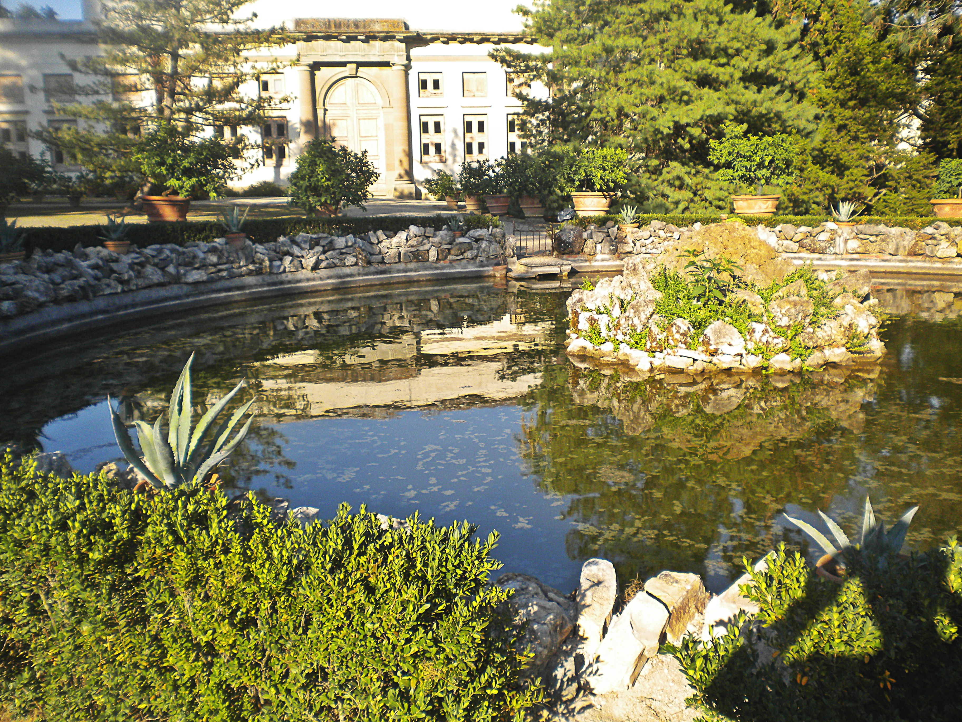 fountain